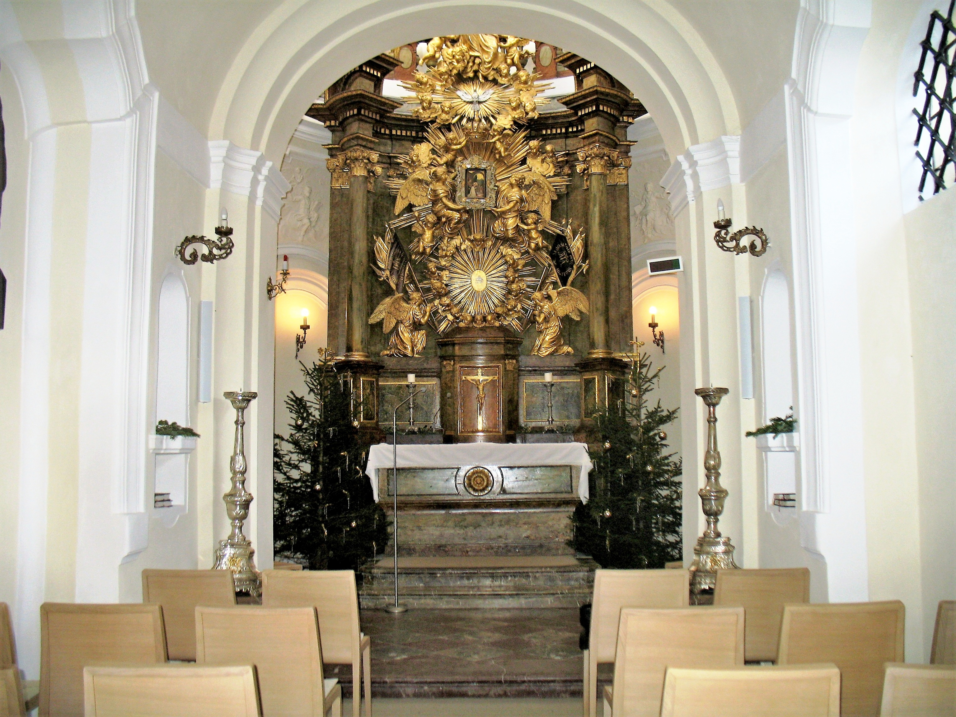 Interior of the Church of Our Lady of Victories in Prague - Bílá Hora